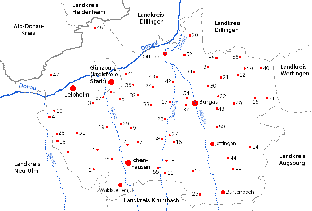 the district of Günzburg before the regional reorganization in1972